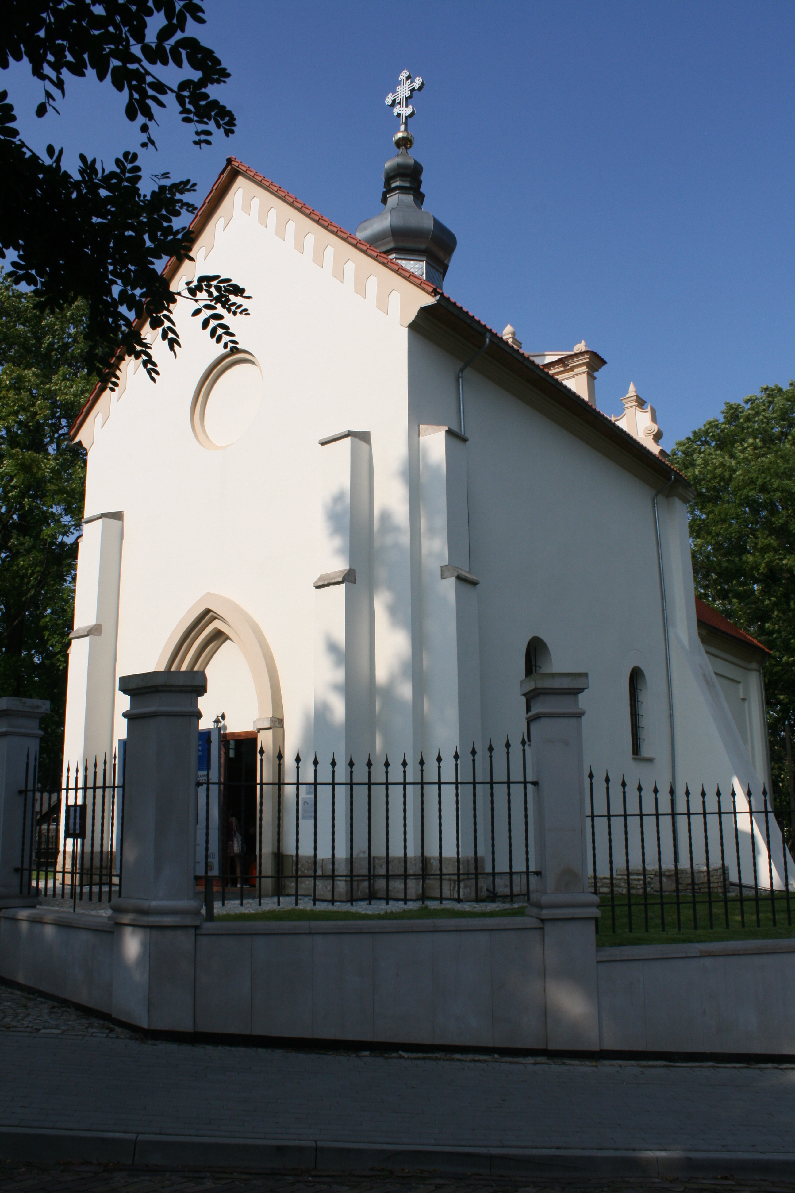 Eastern Orthodox church of the Dormition of the Theotokos in Szczebrzeszyn, Poland